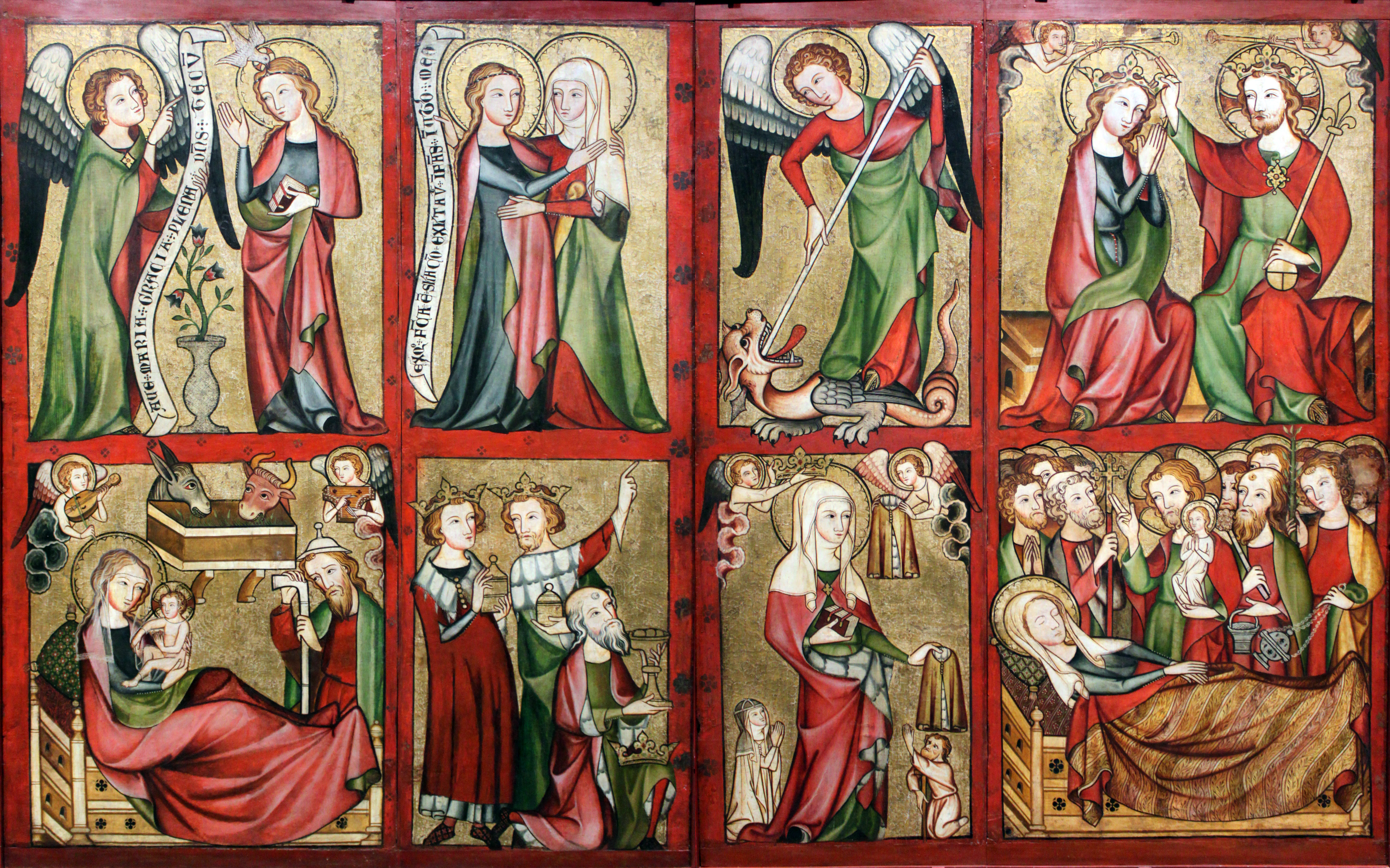 The wings of the Altenberg Altarpiece